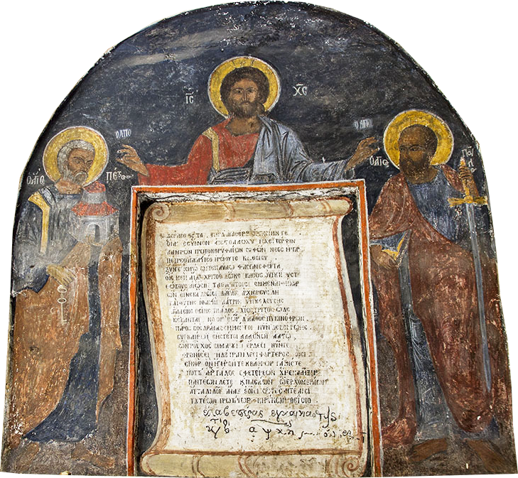 Christ and Peter and Paul Fresco on the Western Wall of Apstles Church in Veria